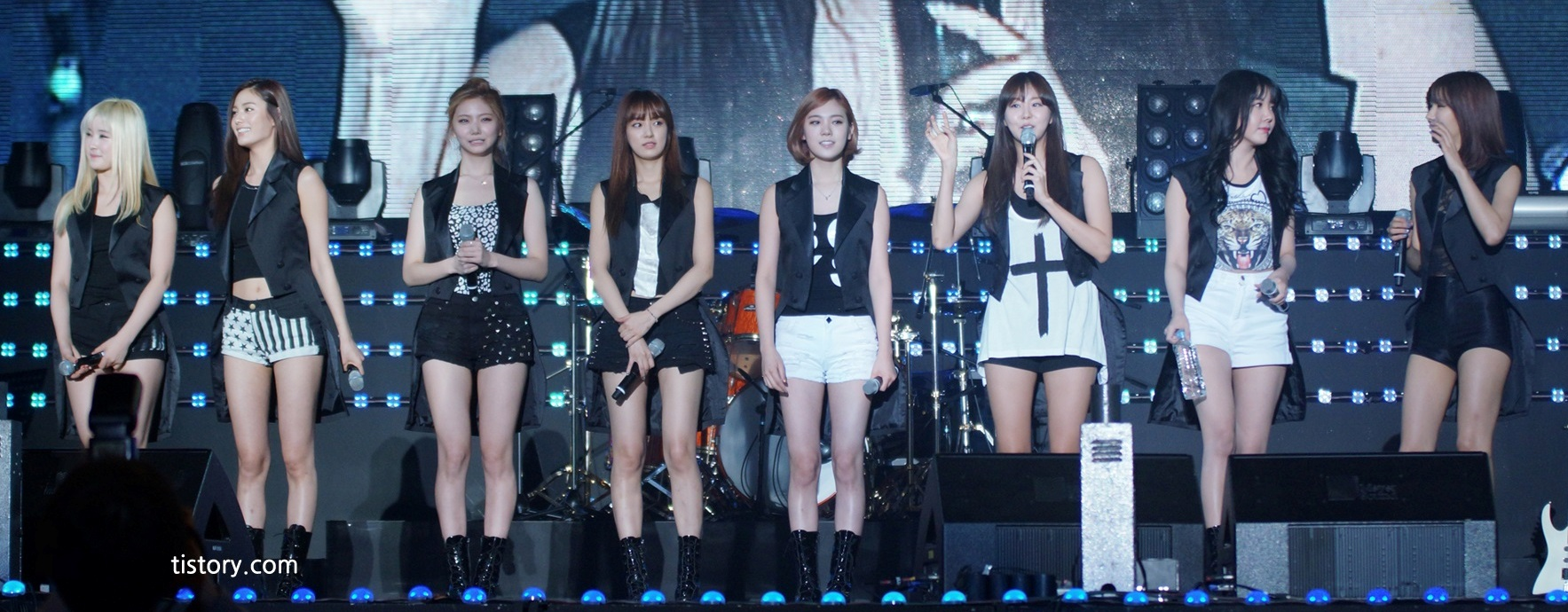 After School at Korea Economic Daily Concert, 27 September 2013. From left to right: E-Young, Nana, Kaeun, Jooyeon, Lizzy, Uee, Raina, Jungah.